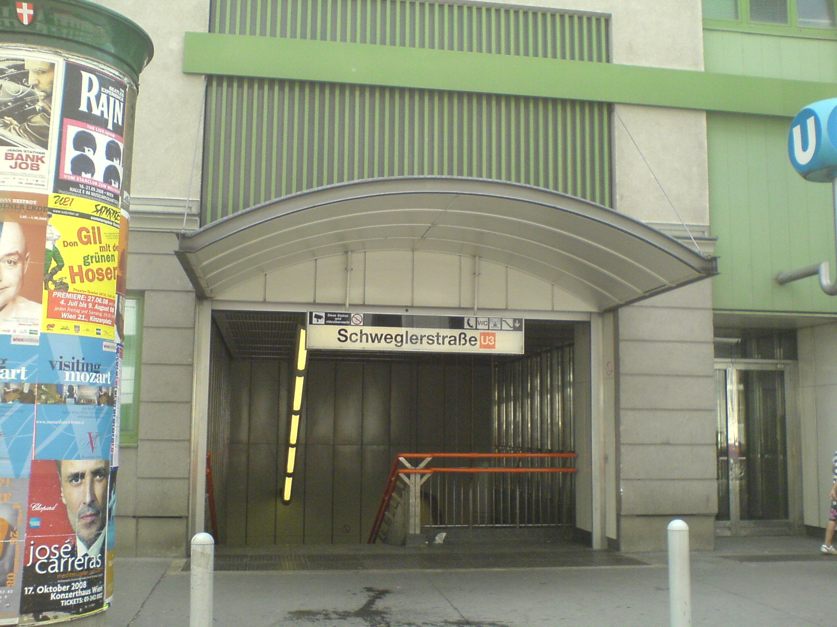 Entrance to the Vienna Underground Station Schweglerstraße